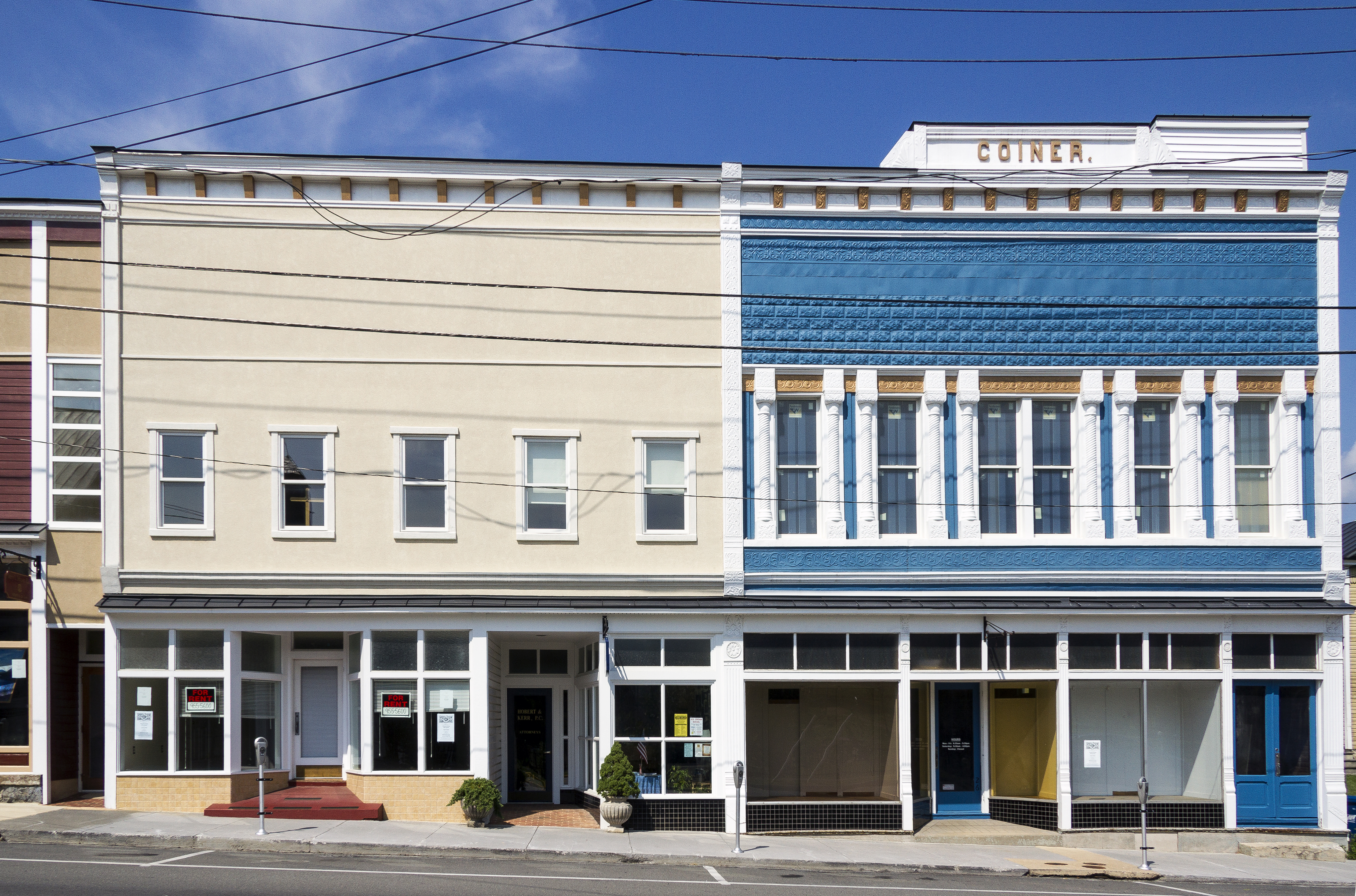 Former Coiner's Department Store, Berryville, Virginia, USA